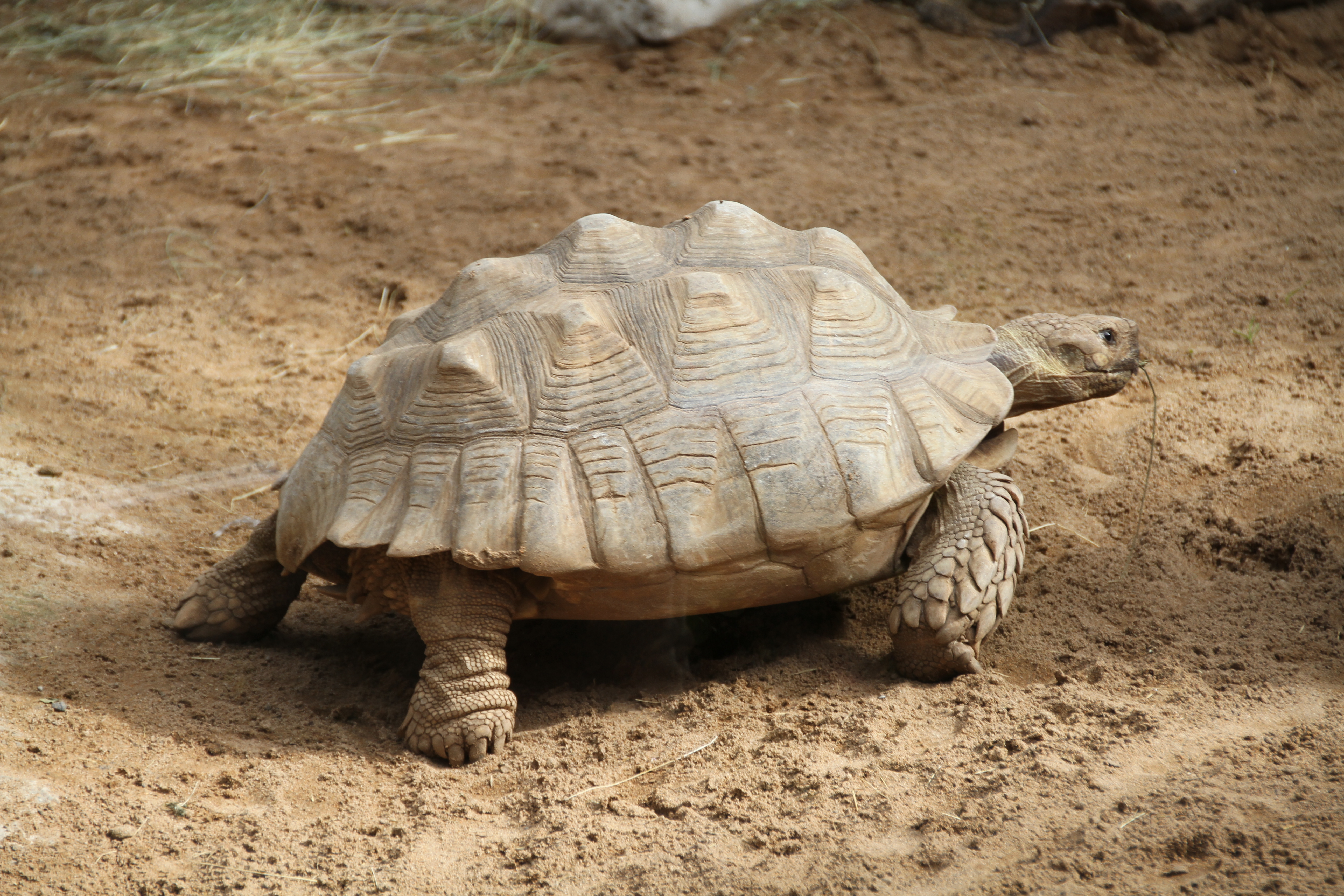 Image from the Loro Parque, Tenerife (Spain). Showing an african spurred tortoise